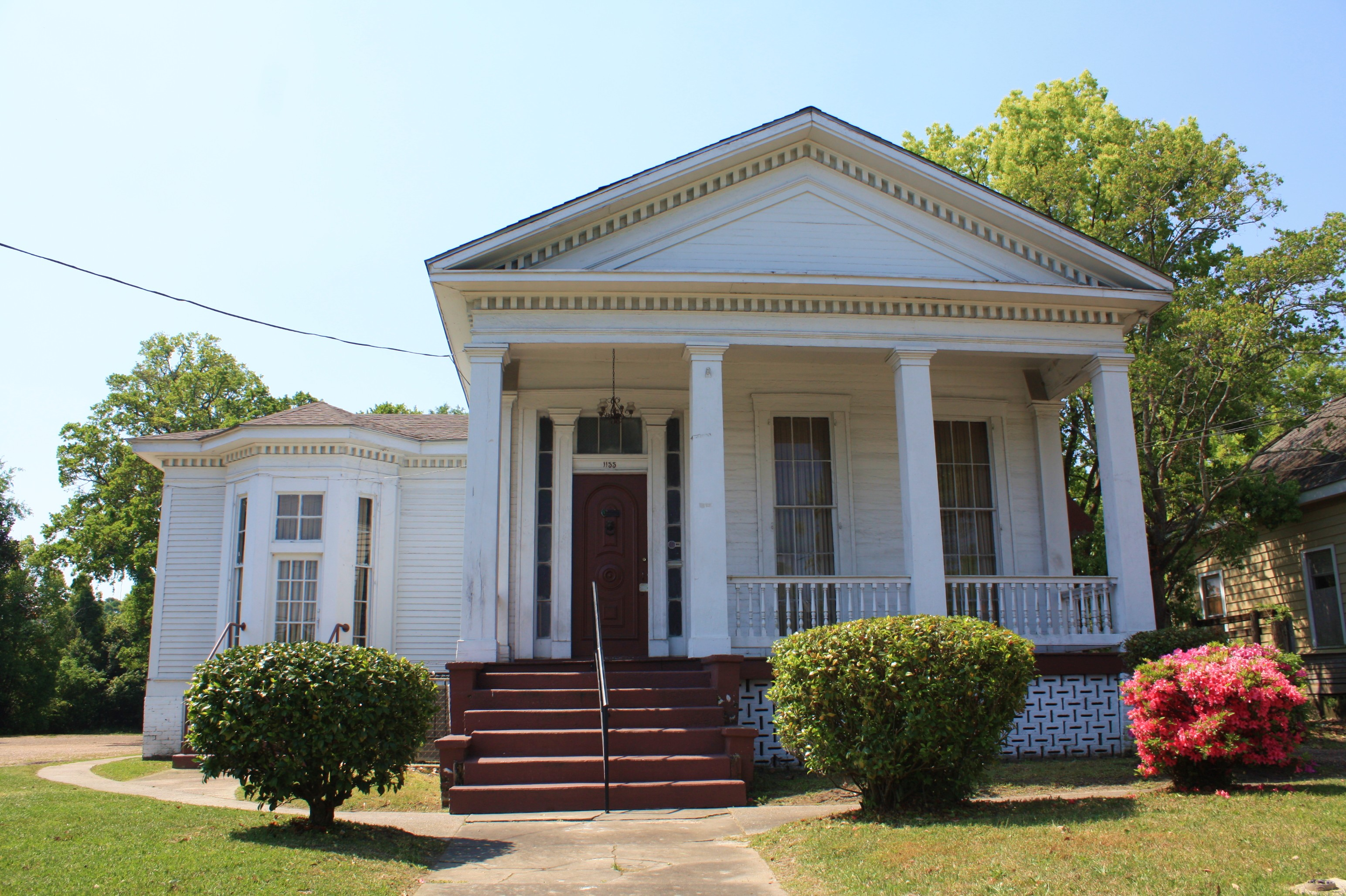 The Weems House in Mobile, Alabama, United States. Built in 1870, it now serves as a meeting place for a fraternal organization, the Dragons Civic and Social Club. Individually listed on the National Register of Historic Places.